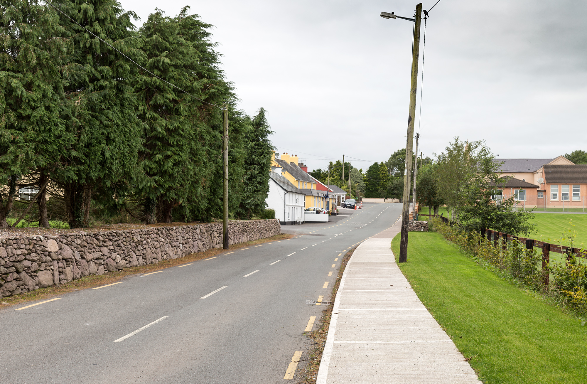 Aghabullogue